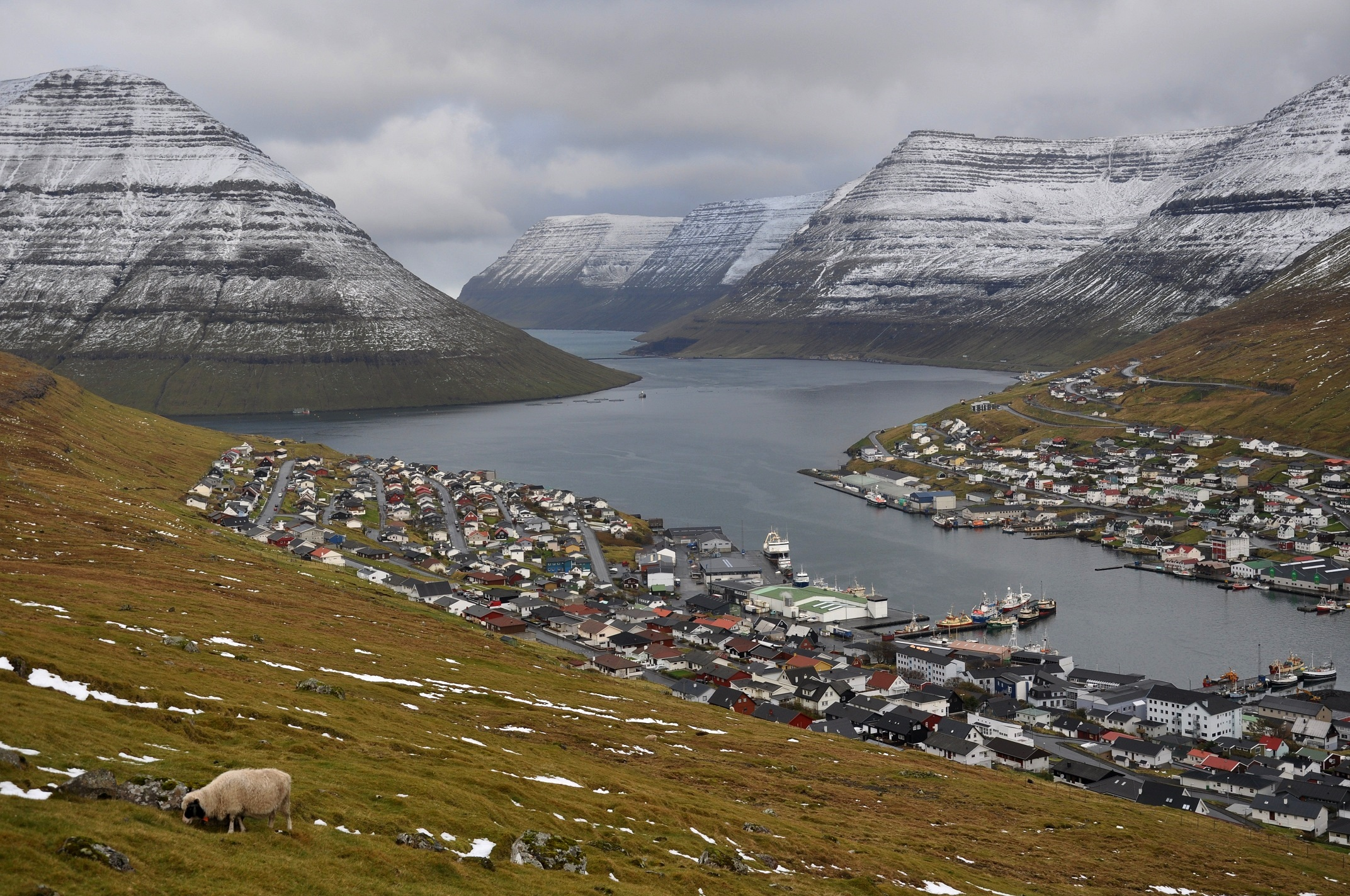 View over Klaksvík (Borðoy, Faroe Islands, Denmark), looking north into the Haraldssund fjord. At left is the island of Kunoy.